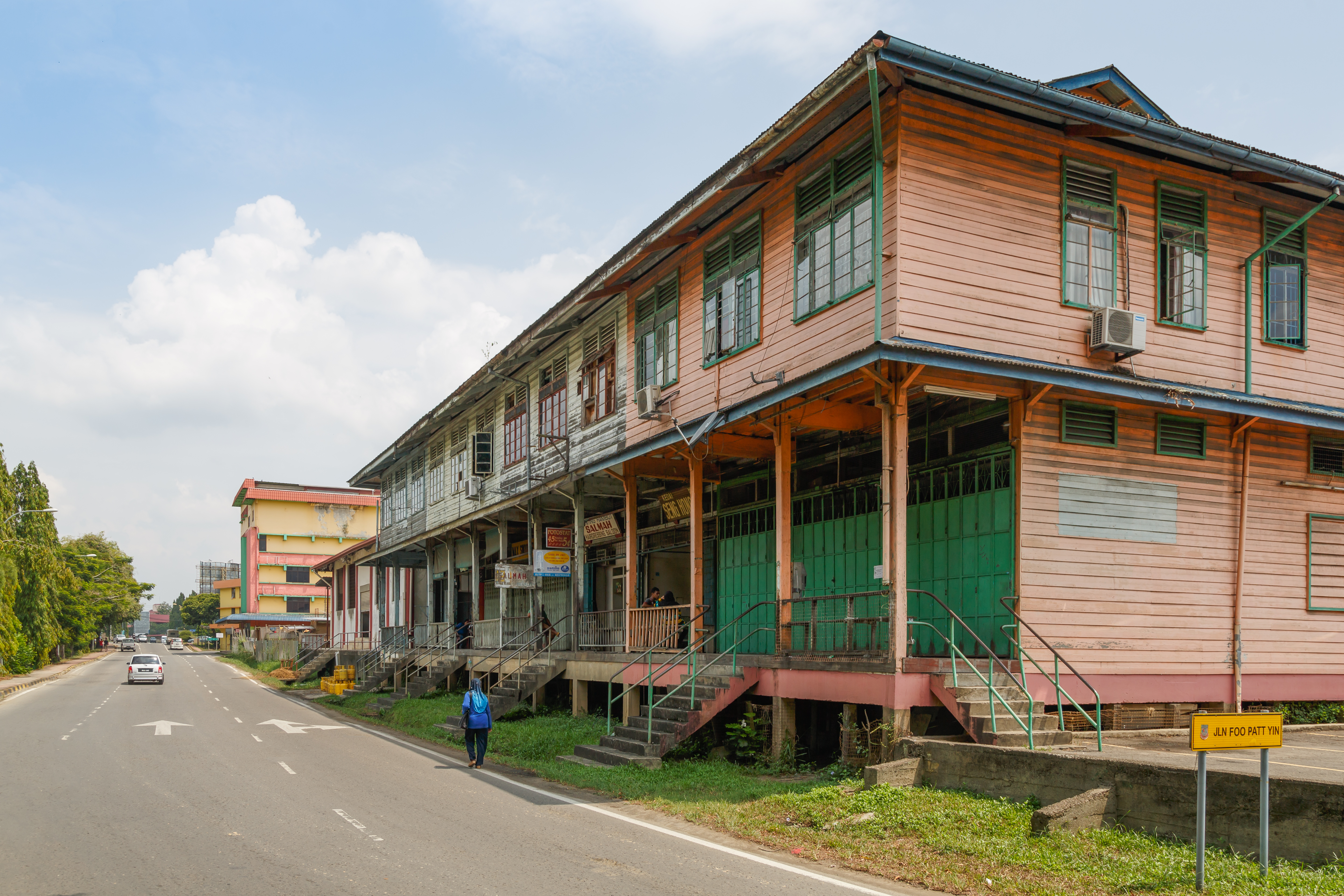 Beaufort, Sabah: Old shophouses near the river. The area used to be flooded by the Papar River. During that time, the access to the shophouses was only possible by boat.